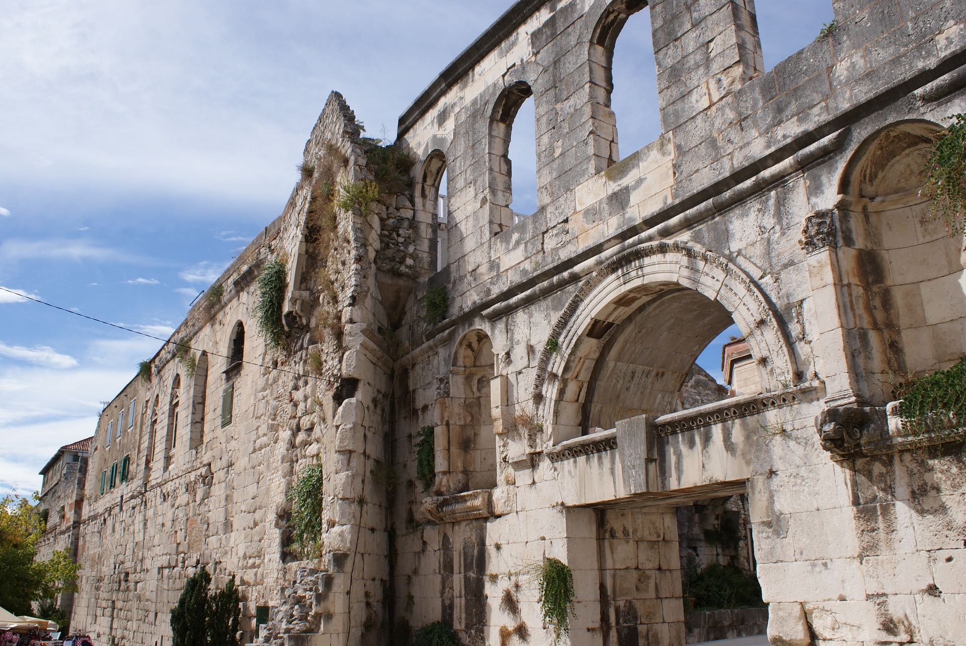 Split Silver Gate (Diocletian's Palace)